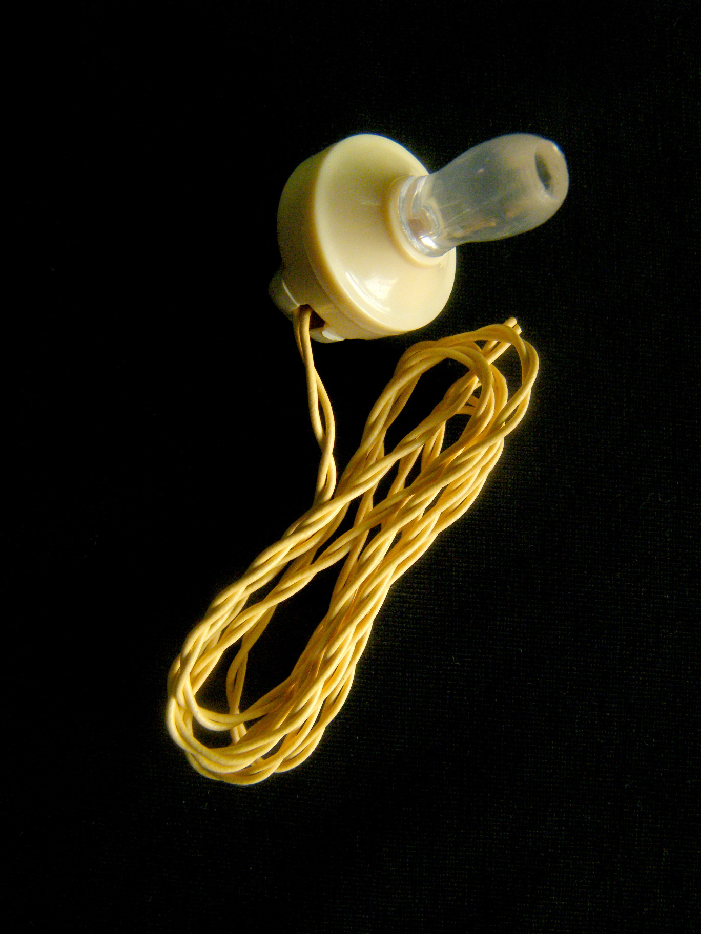 A cheap crystal earpiece, for building a DIY crystal radio.